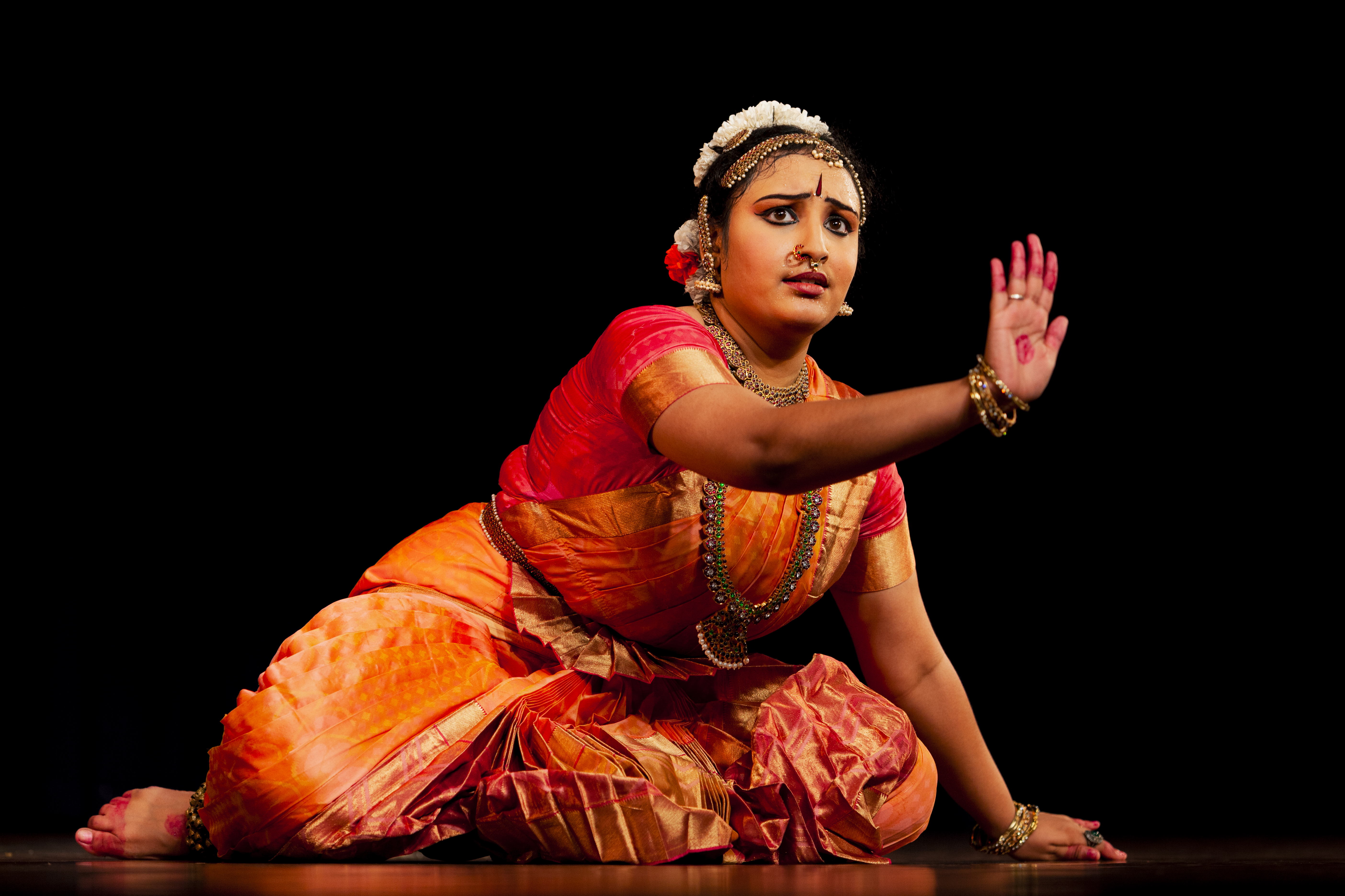 Bharatanatyam an Indian classical dance originated in Tamil Nadu This photo has been taken in the country: India